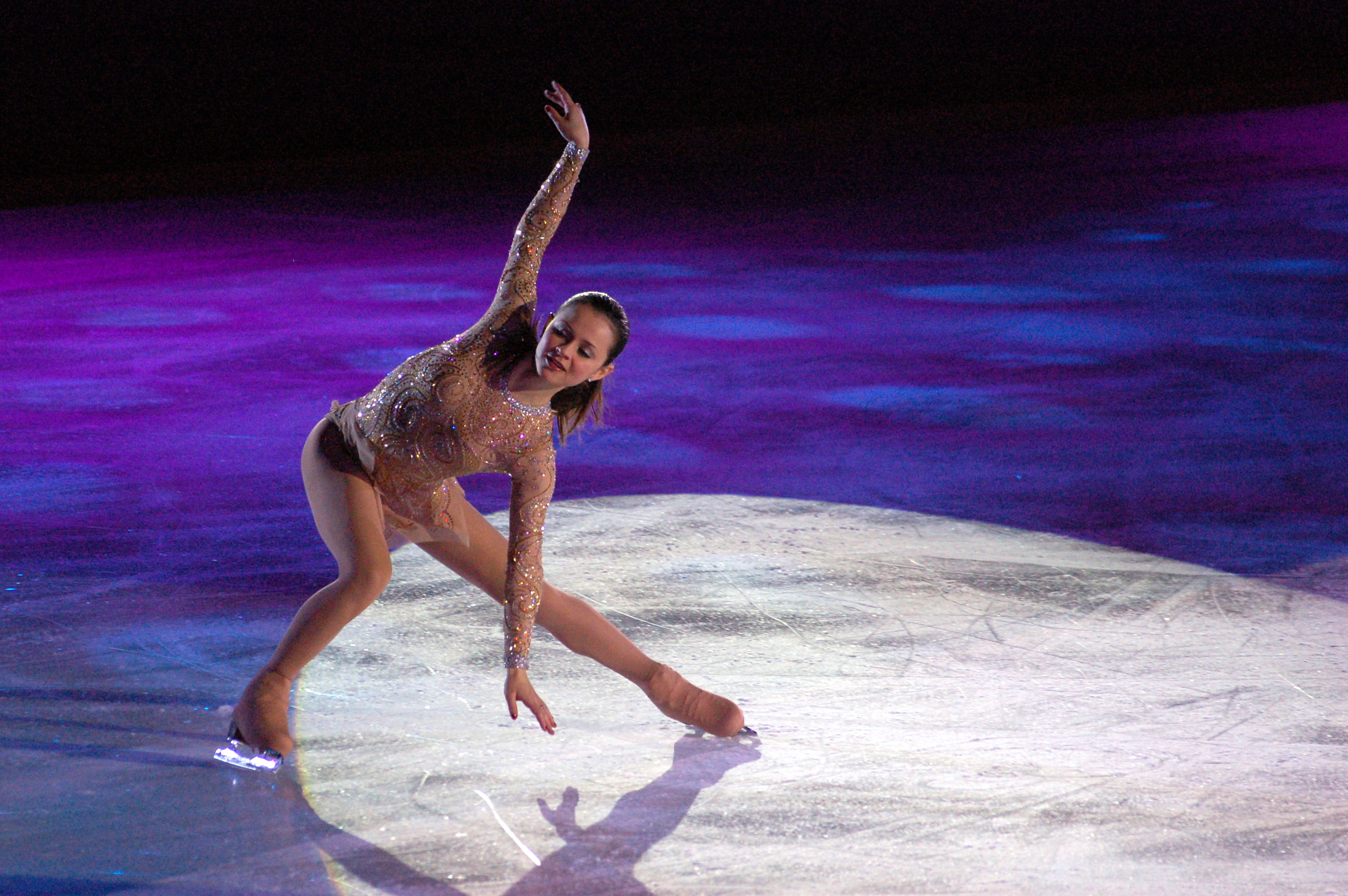 Sasha Cohen at Skating Club of Boston's Ice Chips performance in Harvard's skating arena in Allston, MA